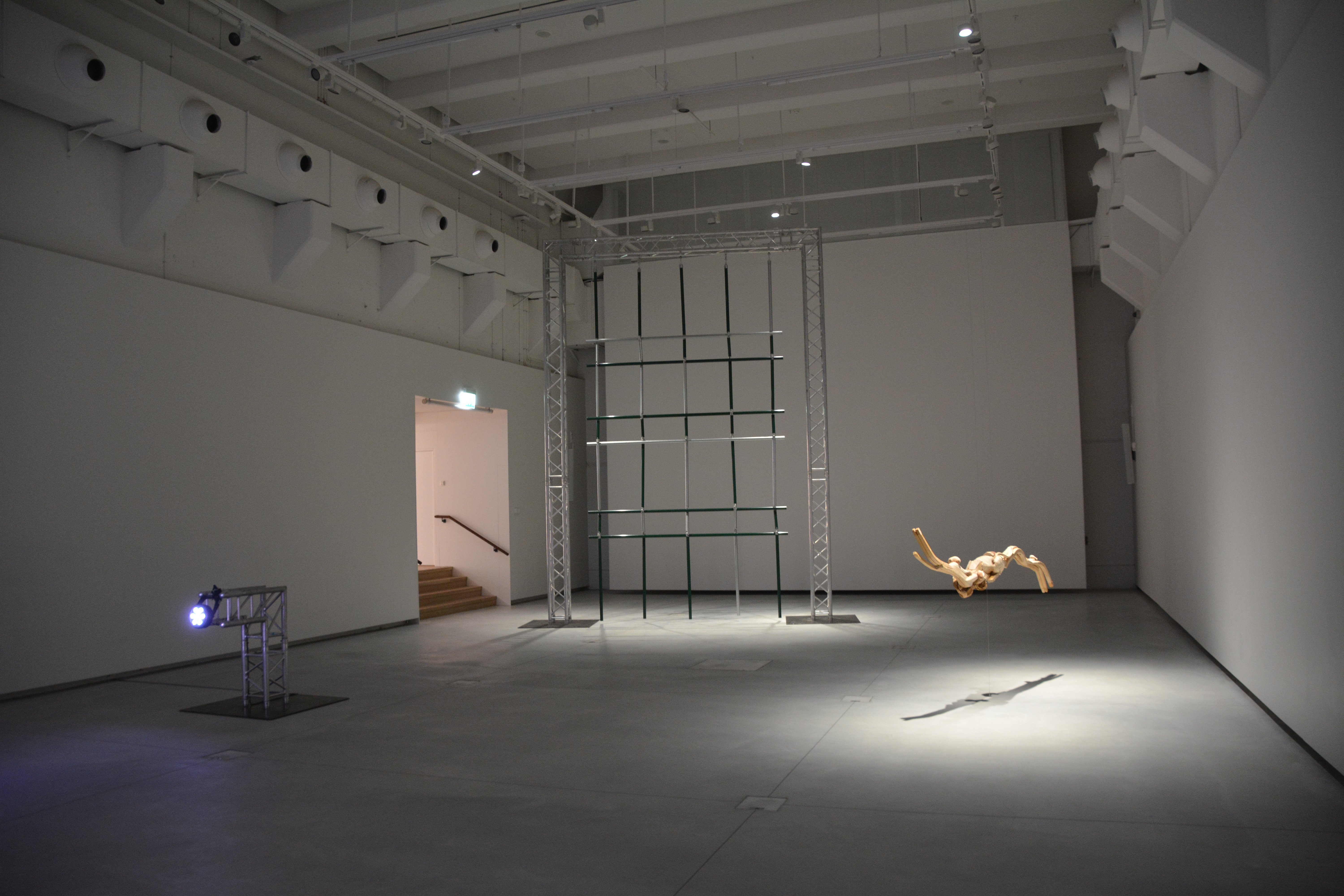 Art Gallery Accelerator, exhibition room